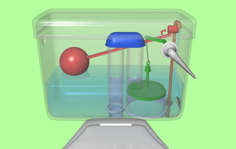 toilet wc